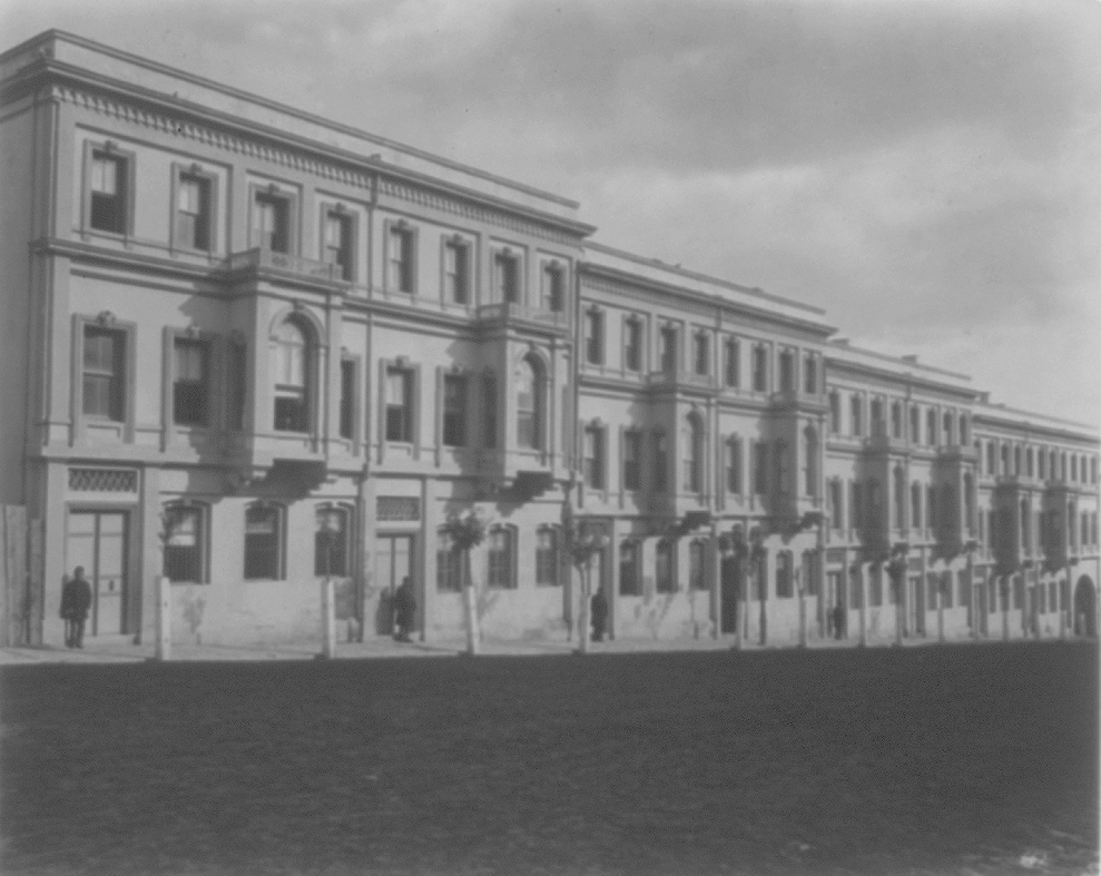 Mekteb-i Aşiret-i Humayun (Imperial Tribal School) was an Istanbul school founded in 1892 by Abdulhamid II to promote the integration of tribes into the Ottoman empire through education. Abdullah Frères — Viçen (1820-1902), Hovsep (1830-1908) and Kevork Abdullah (1839-1918): three armenian brothers who ran a commercial studio in Constantinople with branches in Cairo and Alexandria. In 1862, named official photographers to the court of Sultans Abdul Aziz and Abdul Hamid II, they were commissioned to document the Ottoman Empire.